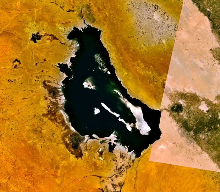 A satellite photo of Lake Milh, in Iraq.